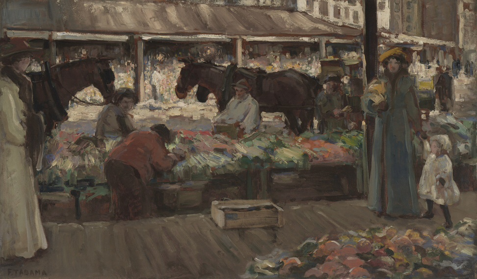 Public Market, Seattle (Fine Arts Museums of San Francisco)